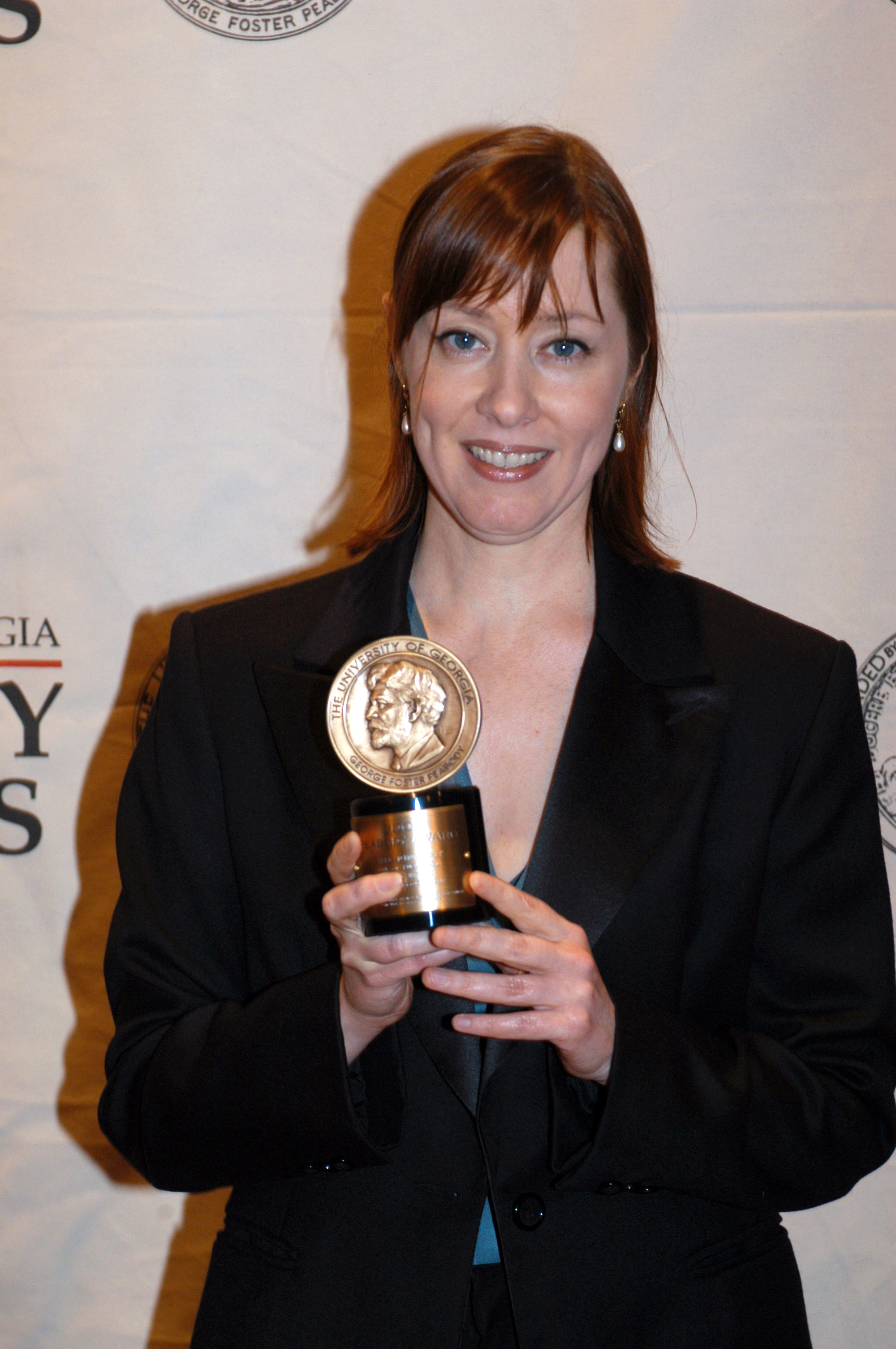 PHOTO CREDIT: ANDERS KRUSBERG / PEABODY AWARDS Suzanne Vega, 63rd Annual Peabody Awards Luncheon Waldorf=Astoria Hotel May 17, 2004